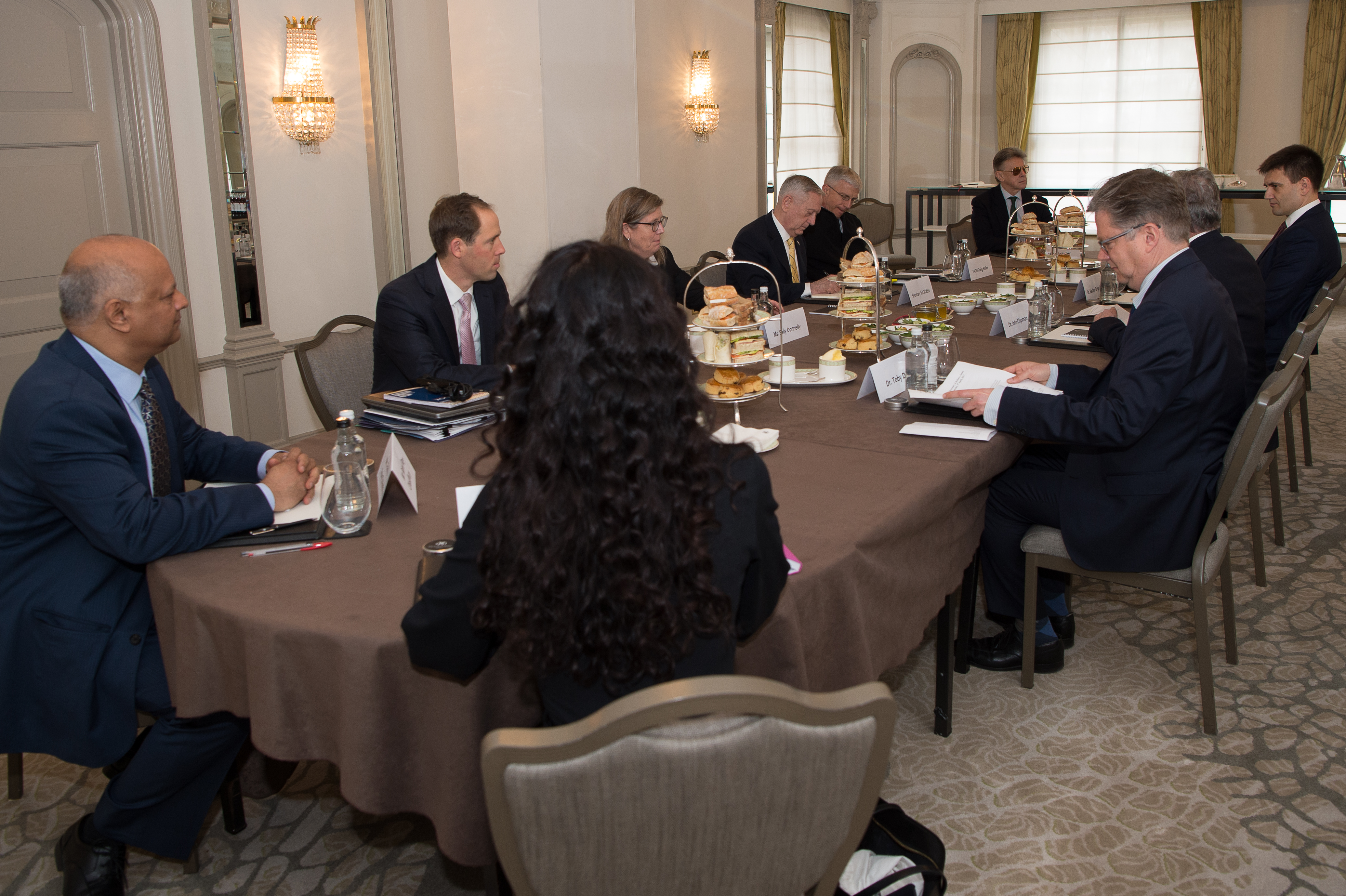 Defense Secretary Jim Mattis speaks with members of the International Institute for Strategic Studies during his visit to London on April 1, 2017. (DOD photo by U.S. Army Sgt. Amber I. Smith)